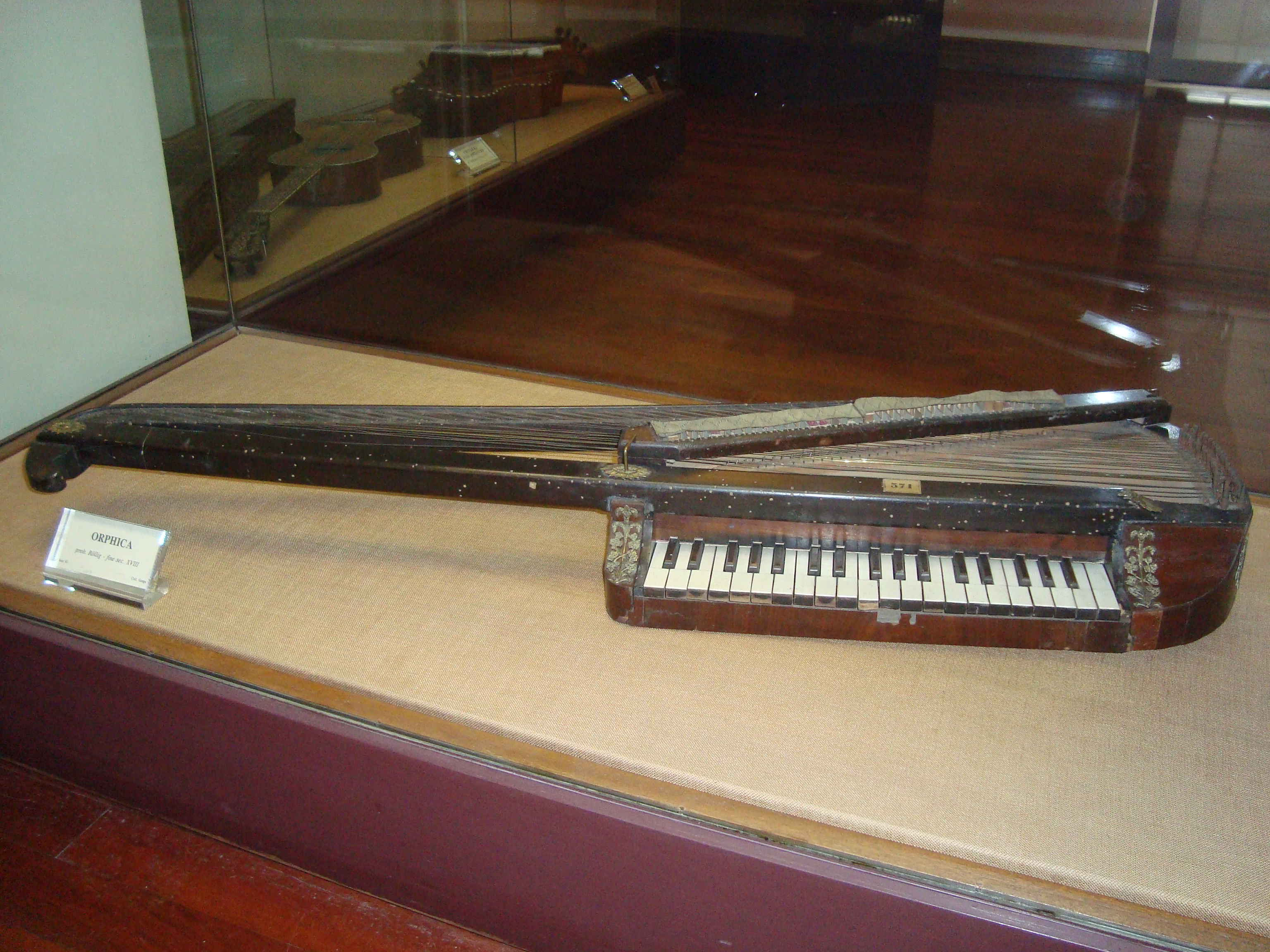 Orphica, by manufacturer Rollig, end 18th century, Museo Nazionale degli Strumenti Musicali di Roma